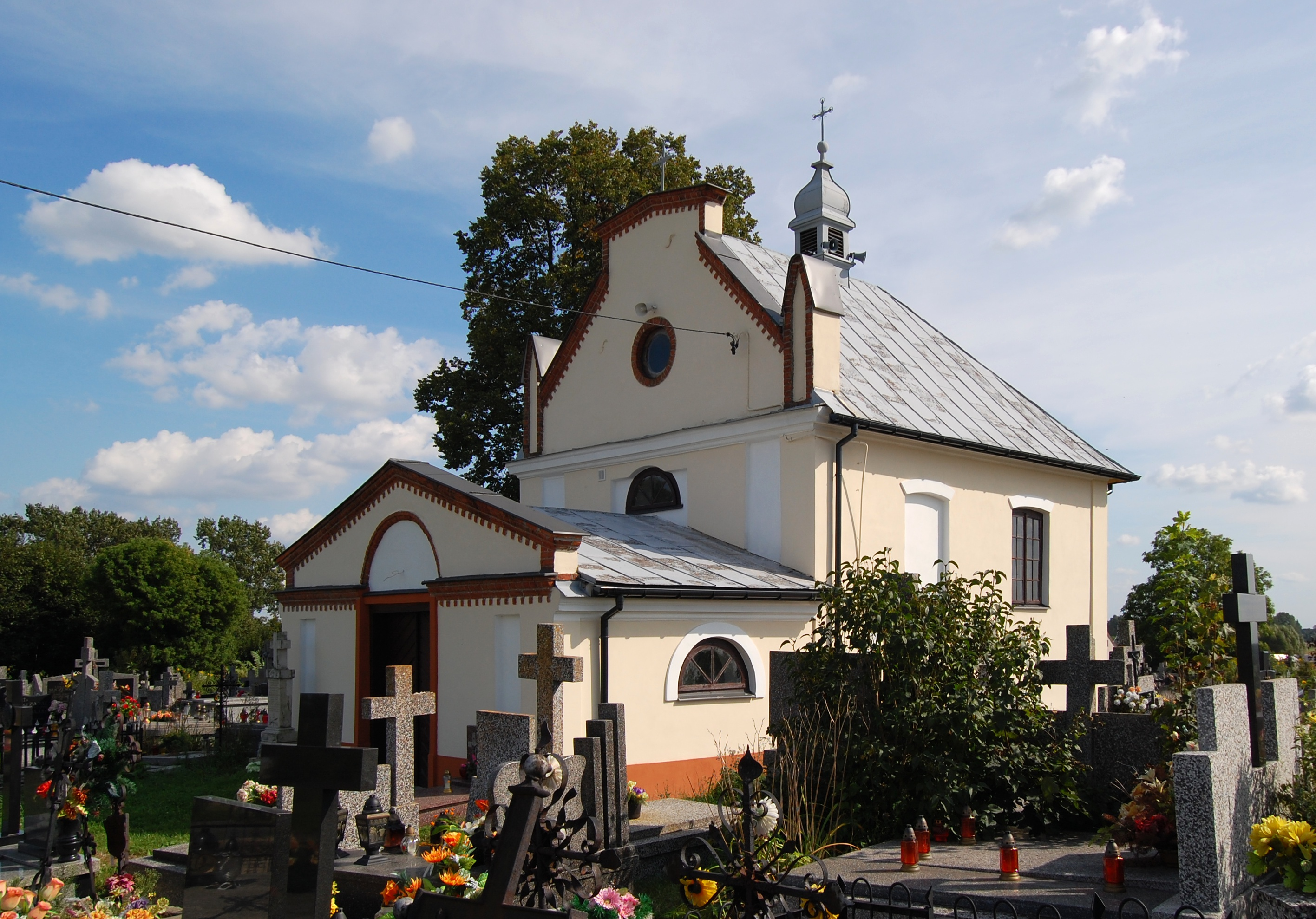 Cemetery chapel in Parysów, Masovian Voivodeship, Poland.